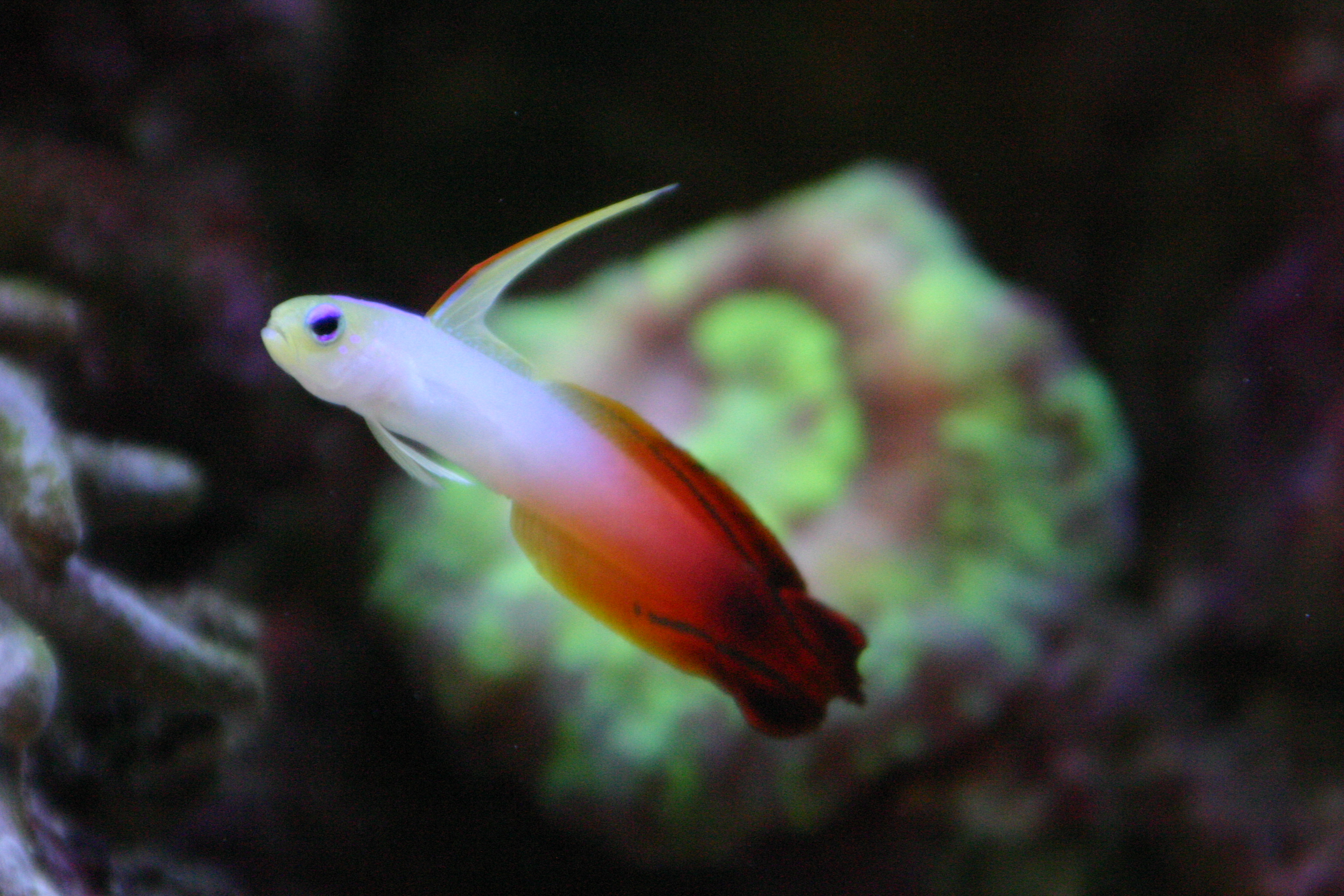 Nemateleotris magnifica (fire dartfish) in an aquarium